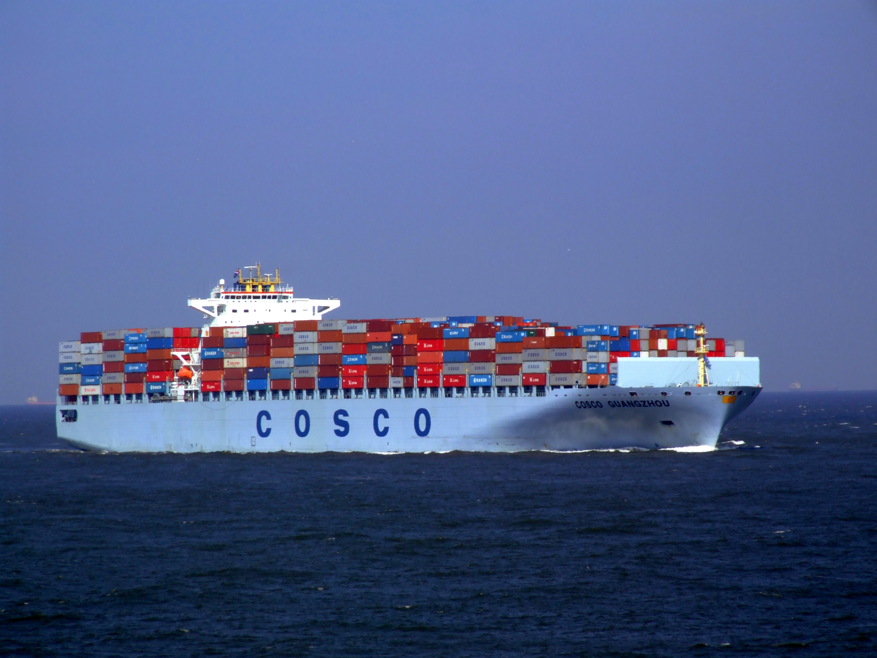 Cosco Guangzhou IMO 9305570 approaching Port of Rotterdam, Holland 19-Apr-2007.